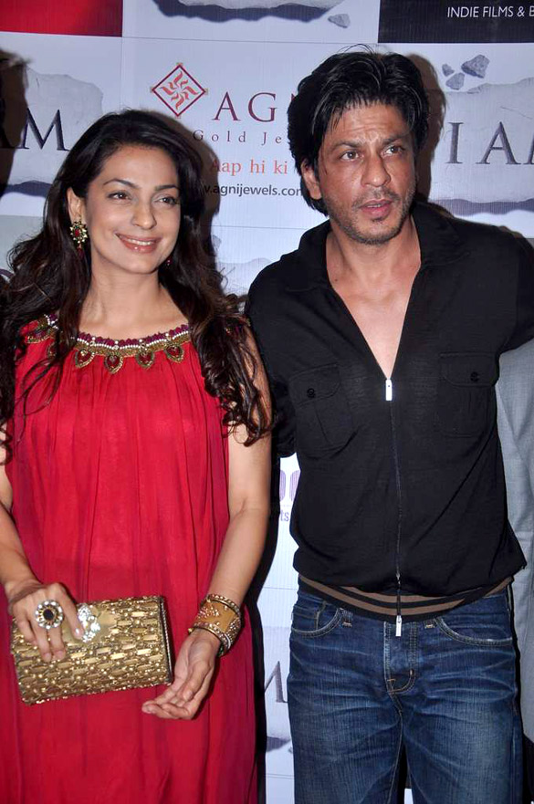 Juhi Chawla,Shahrukh Khan From The SRK, Urmila, Juhi & Chitrangda at 'I Am' National Award winning bash